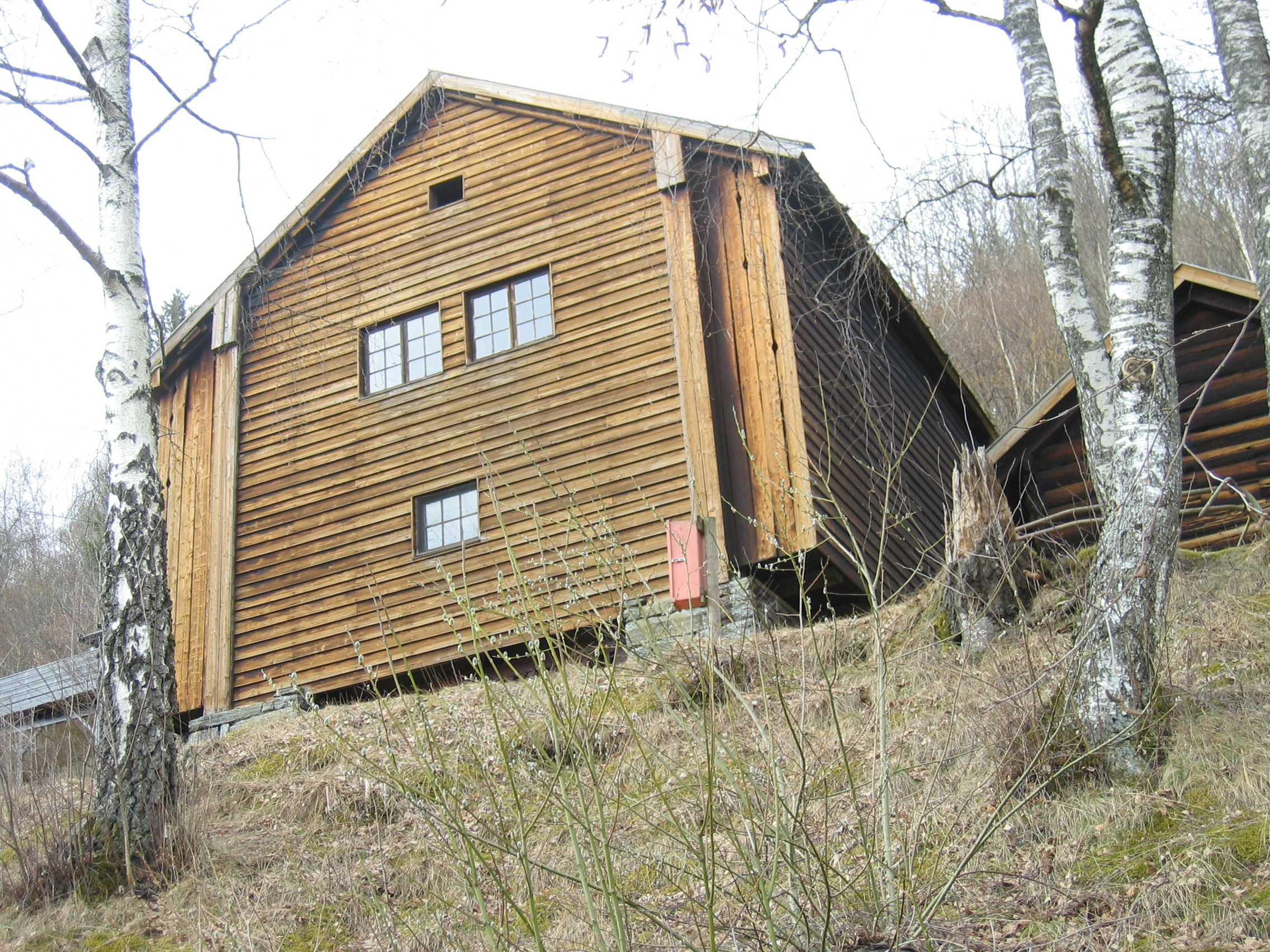 Lydvaloftet, Voss, Norway. Building from the 14th century. Nynorsk: Lydvaloftet, Voss, Noreg. Bygning frå 1300-talet.